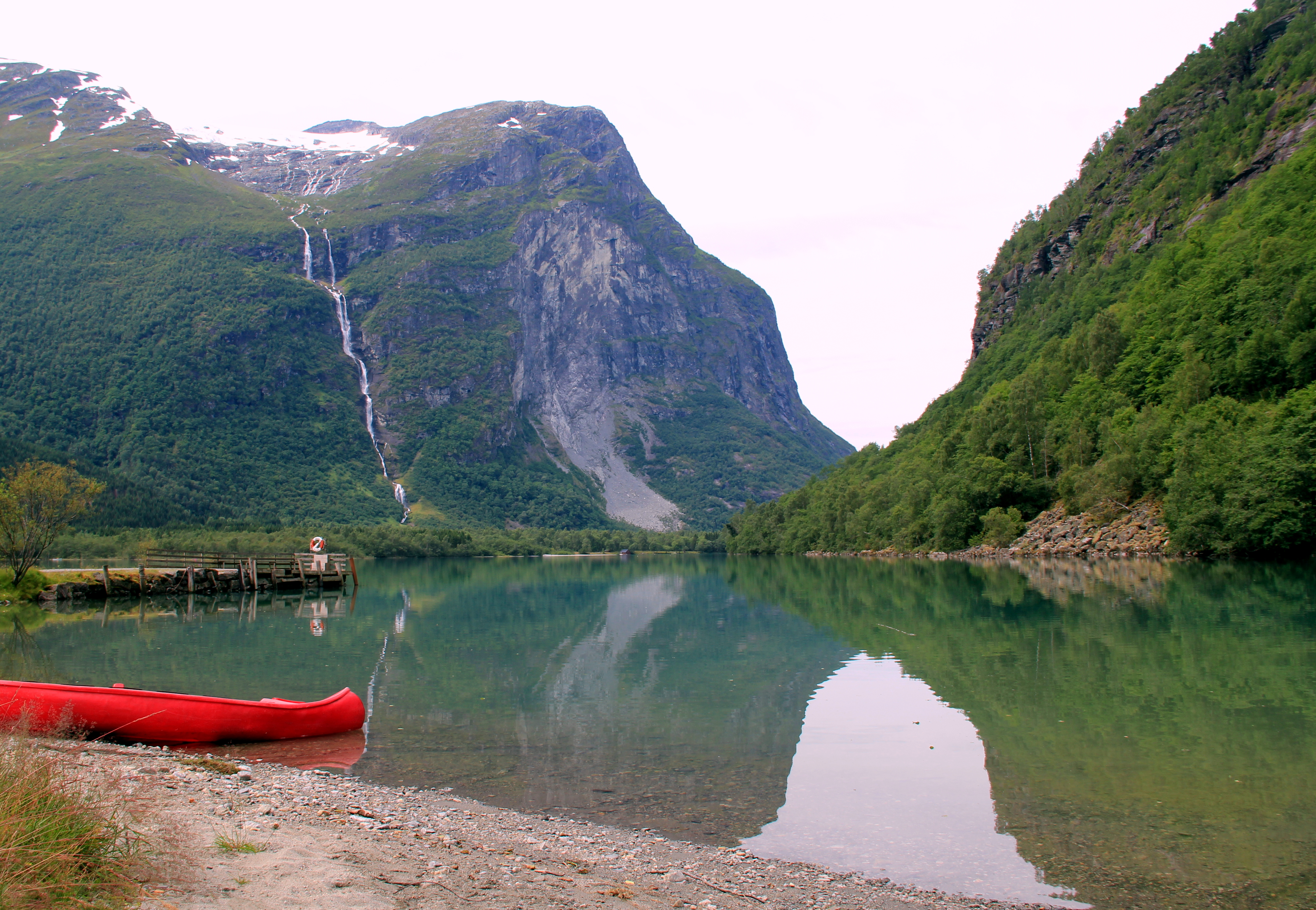 Bødalen with Ramnefjellet and Loenvatnet in Loen, Stryn, Norway